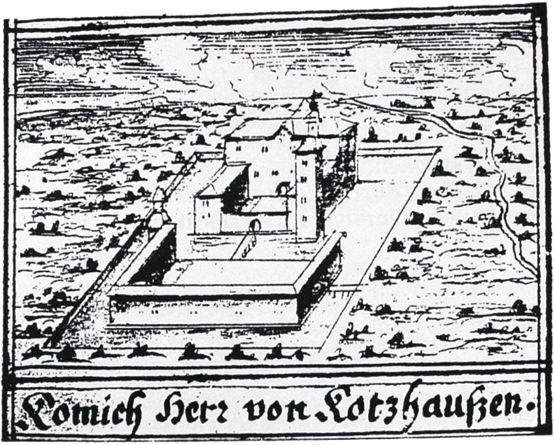 Old drawing of Haus Kambach in the Codex Welser